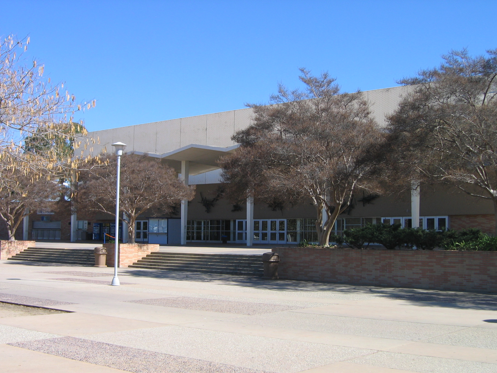 Titan Gym - Basketball and Volleyball Arena